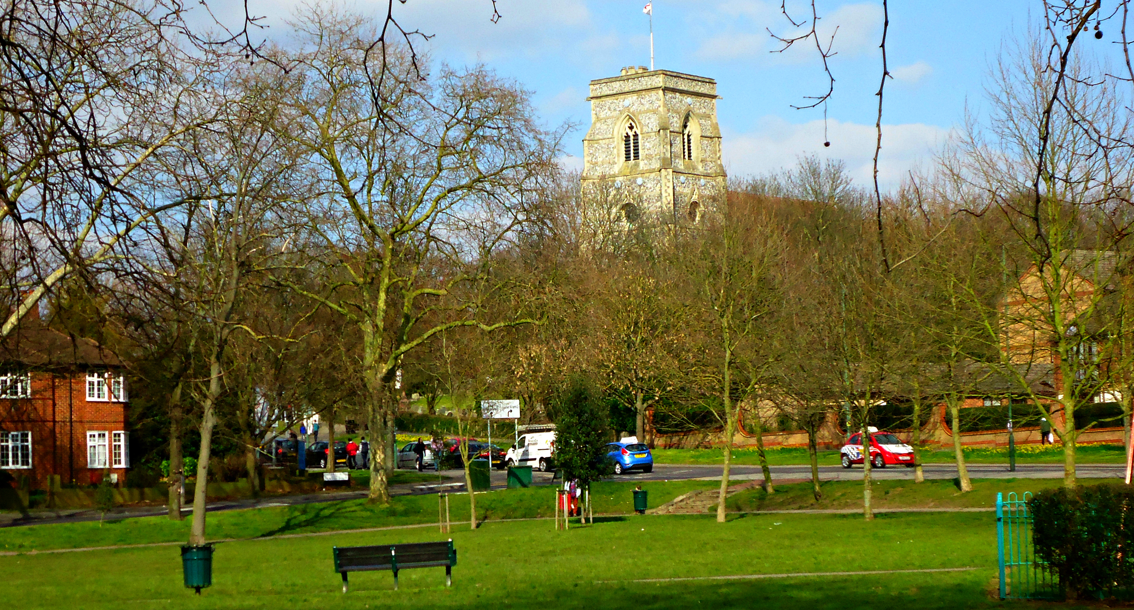 View northeast across part of The Green, Benhilton, south London (formerly Surrey), showing the west tower of All Saints' parish church